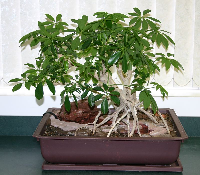 Schefflera arboricola presented as a penjing (bonsai landscape). Between the roots is a river and two cascades.